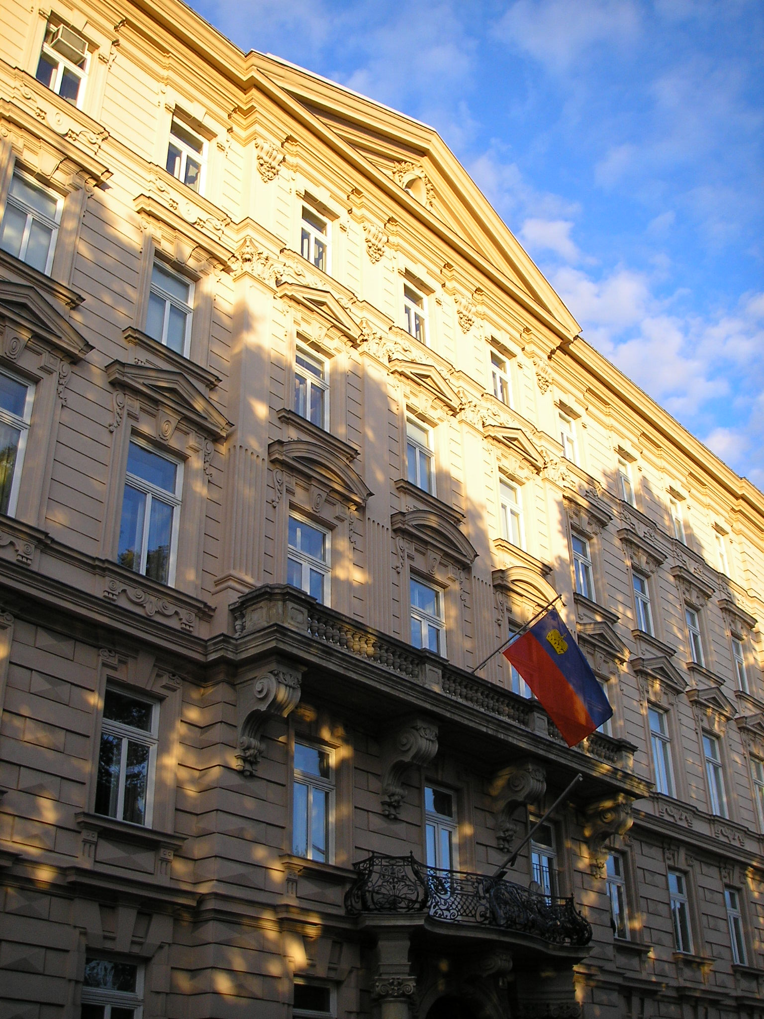 Image of the embassy of Liechtenstein in Vienna's first district Innere Stadt.